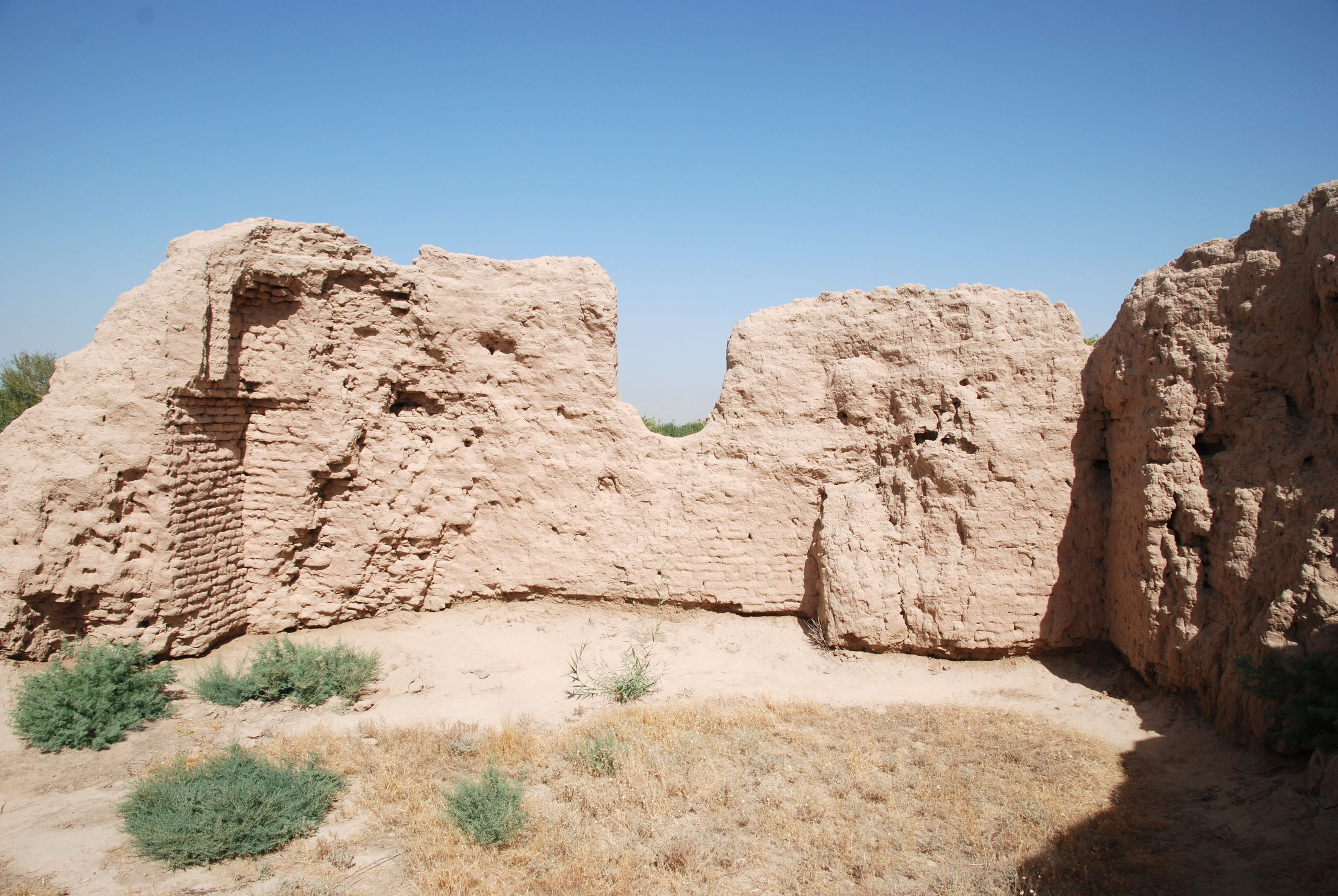 Choja Sarboz, 5 km south of Shahrtuz